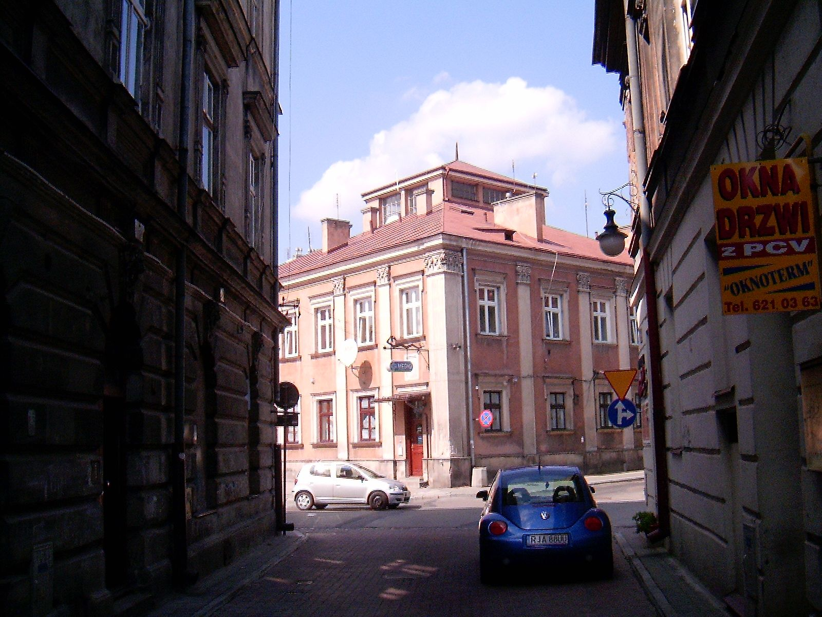 Jarosław, Rynek ,Tenement of Mary